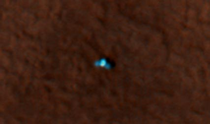 The butterfly-like object in this picture is NASA's Phoenix Mars Lander, as seen from above by NASA's Mars Reconnaissance Orbiter.